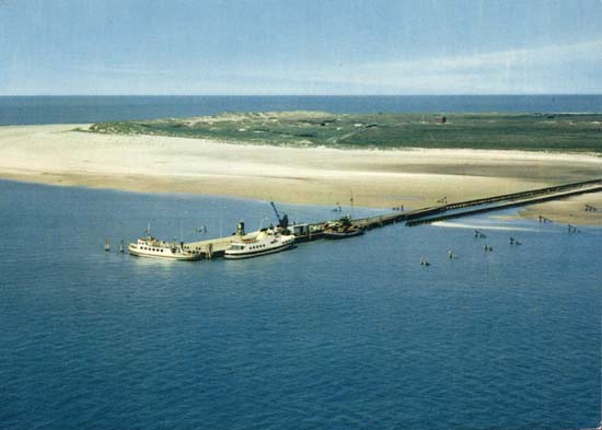 Anleger Spiekeroog Flugzeug